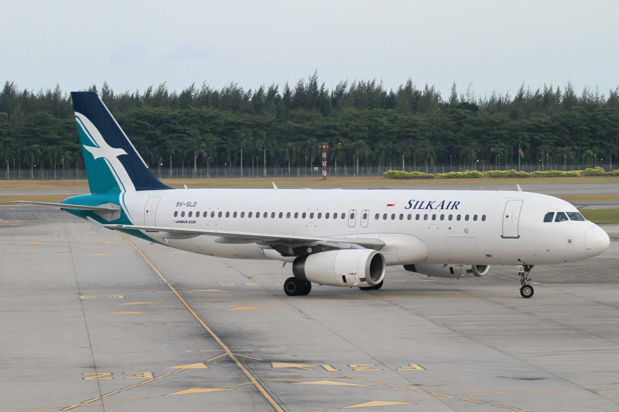 Singapore Changi Airport, Airbus A320-232, c/n:1422